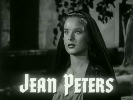 Jean Peters Captain from Castile Henry King 1947